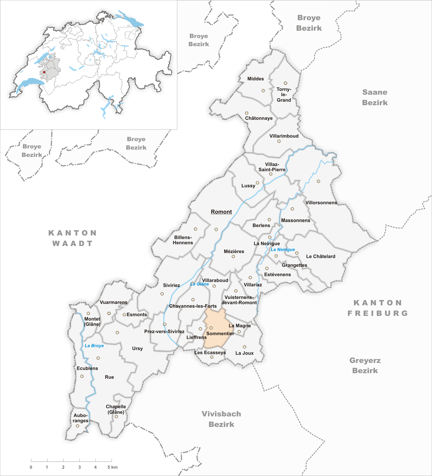 Municipality Sommentier Artist: Tschubby